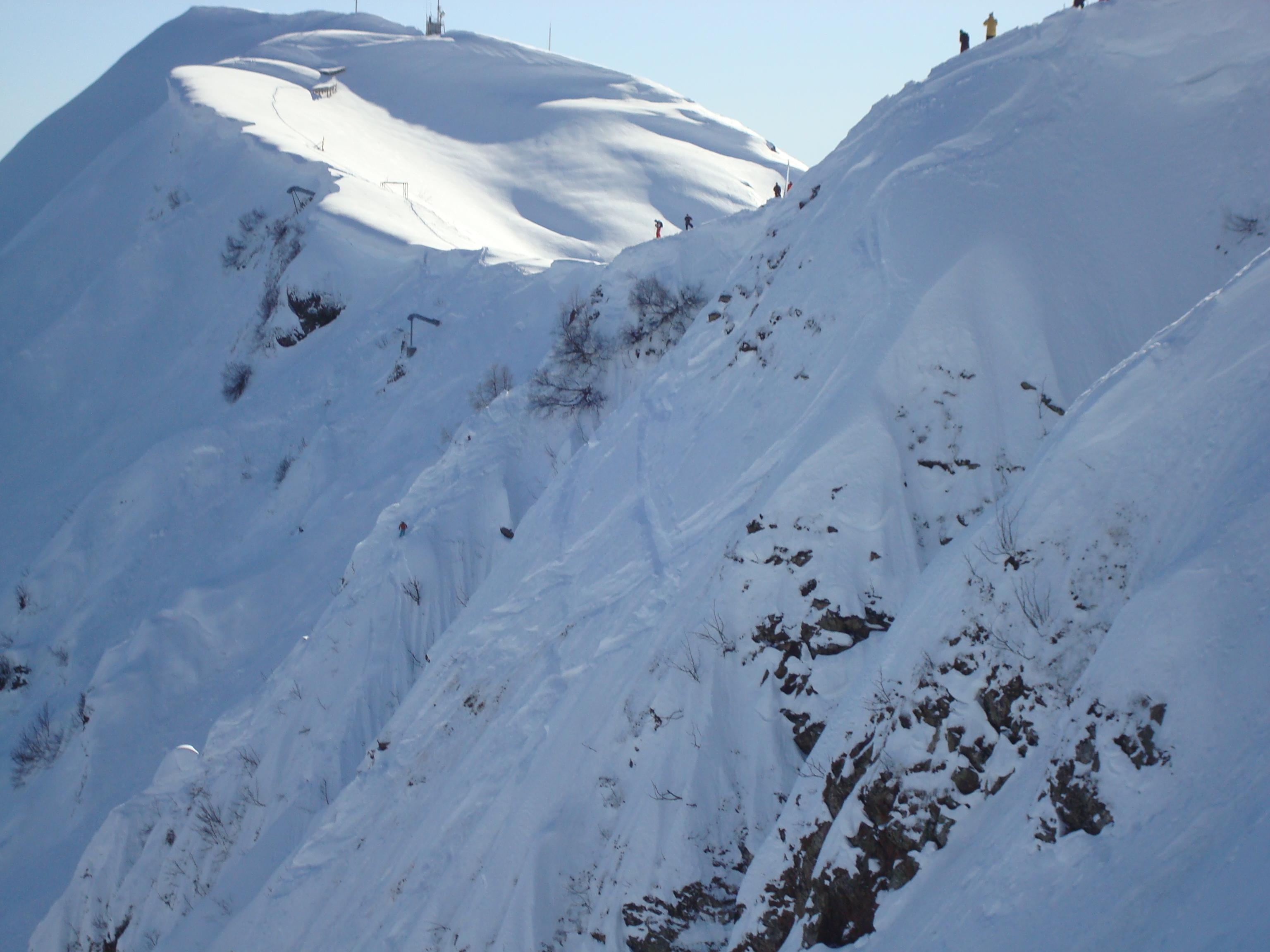 Freeride World Tour Contest in Krasnya Polyana